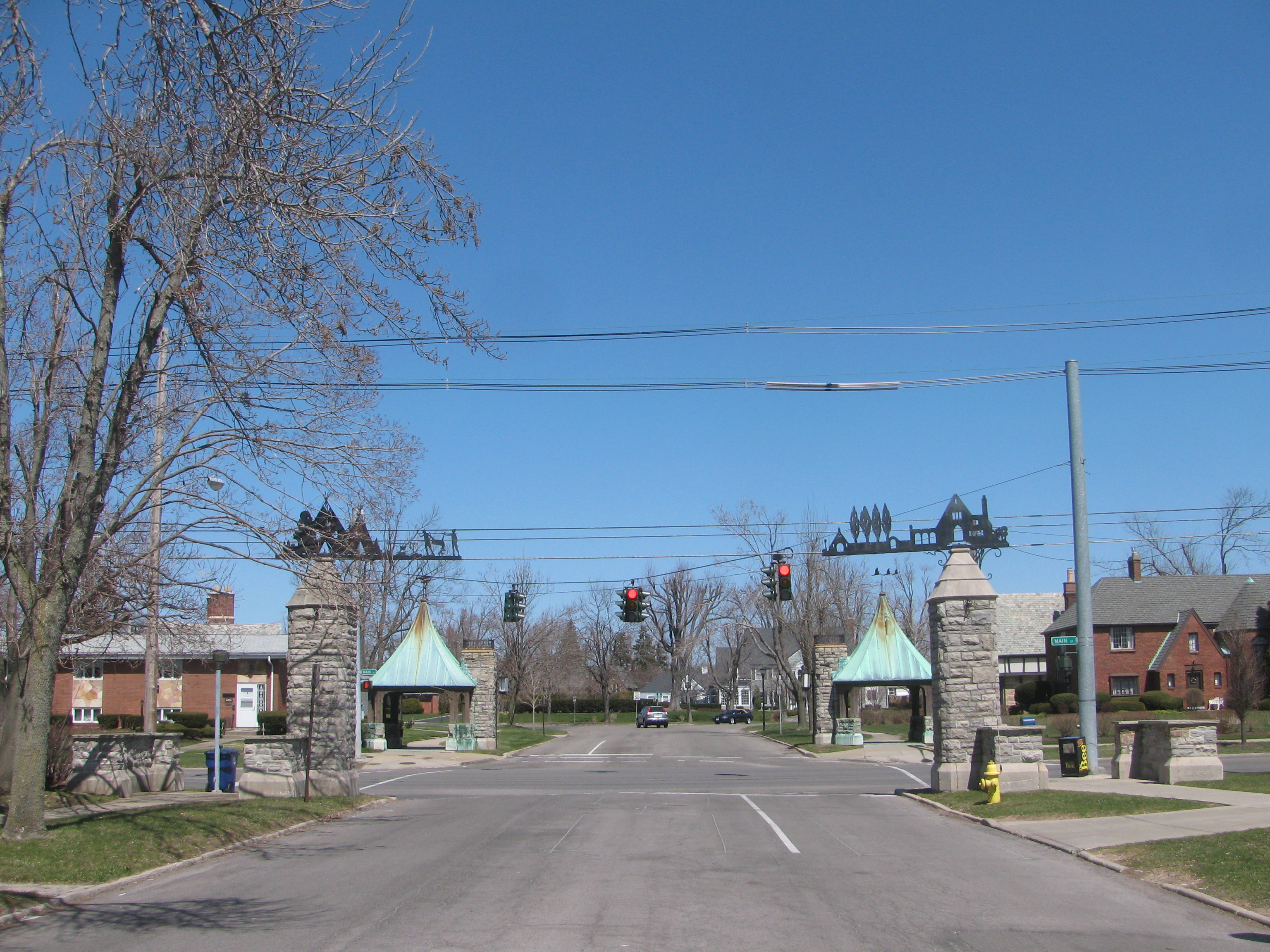 Entranceways at Main Street at Lamarck Drive and Smallwood Drive from south